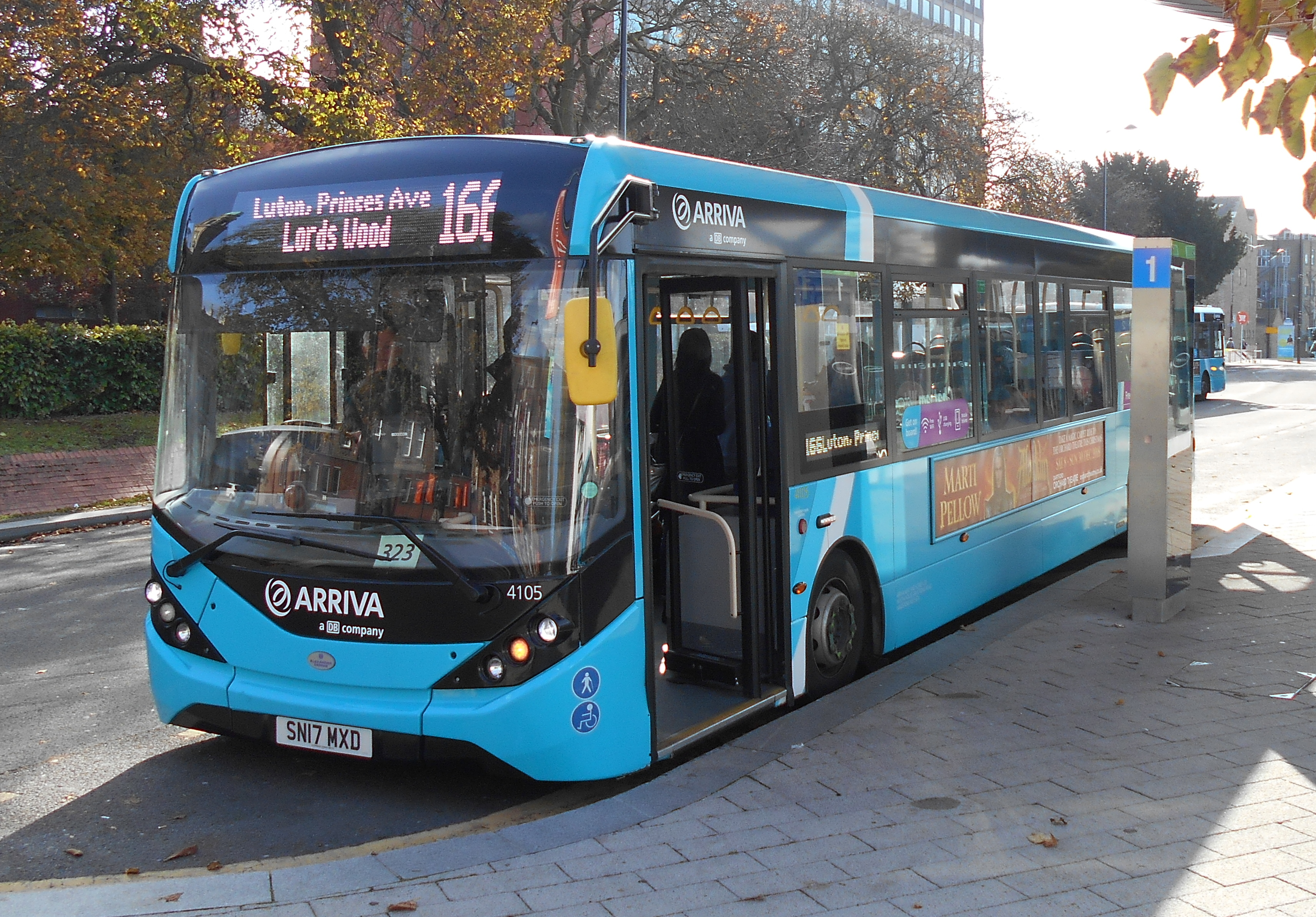 Arriva Kent & Surrey SN17MXD